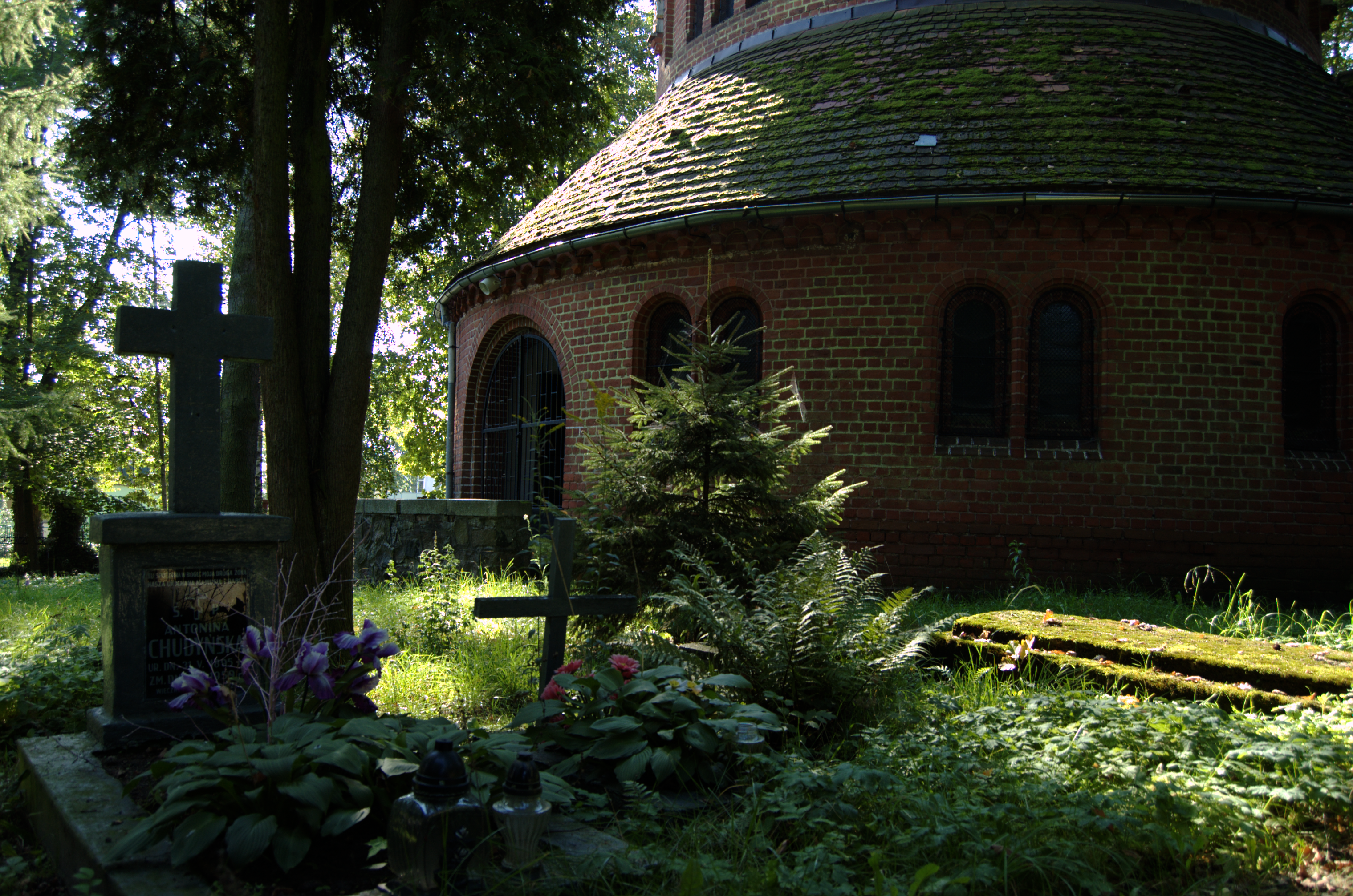 Old evangelical cemetery chapel from XIX century, now an orthodox church